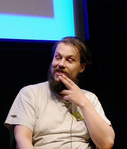 Matthew Smith, the creator of computer games Manic Miner and Jet Set Willy, at the Screenplay festival in Nottingham, UK